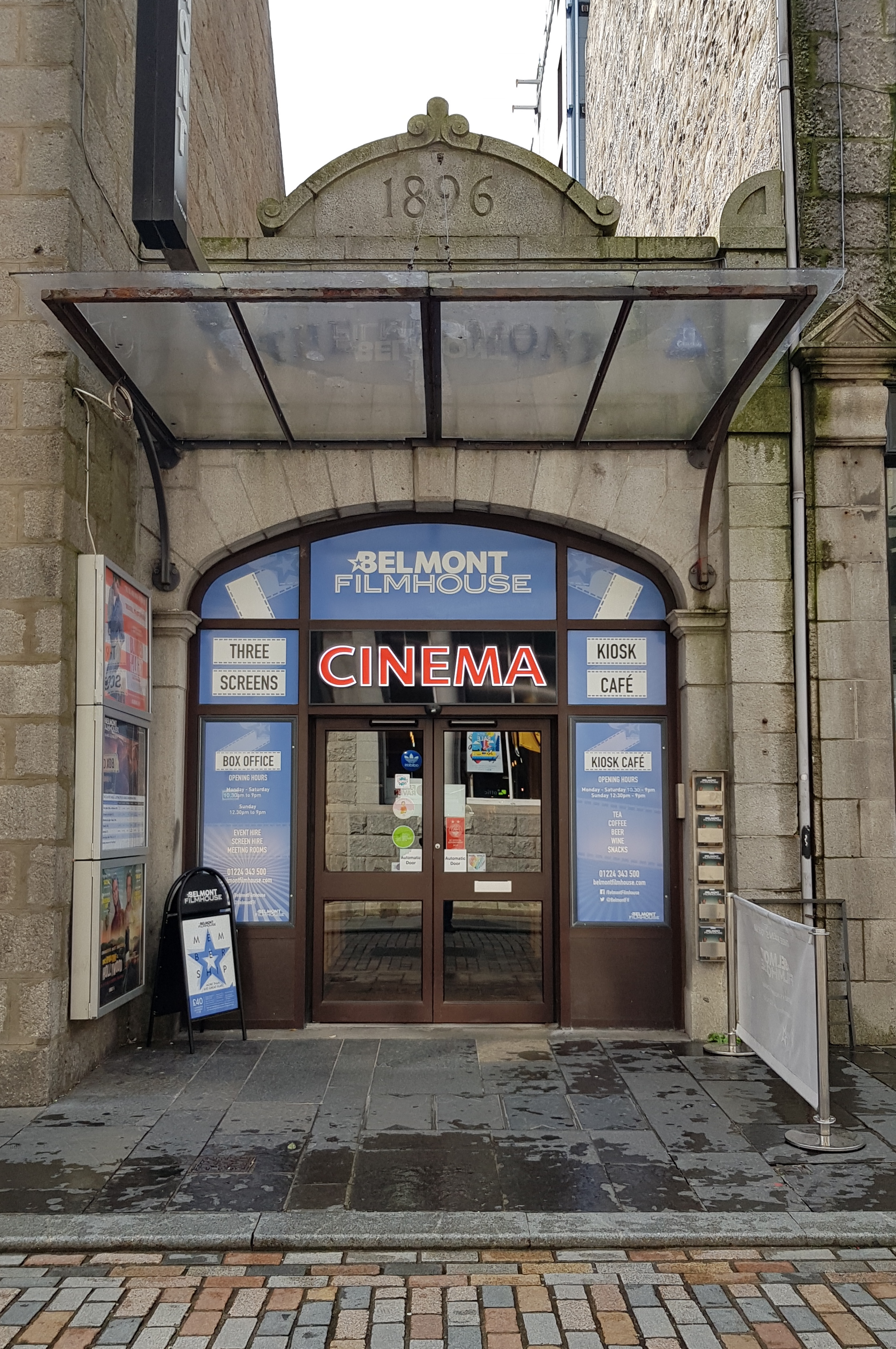 Frontage of the Belmont Cinema, Belmont Street, Aberdeen, taken August 2019